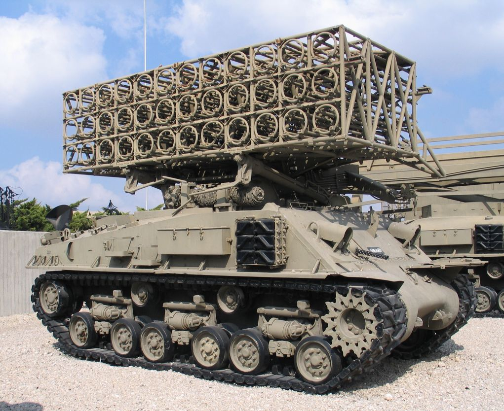 Description: Israeli MAR-240 240 mm ground-to-ground missile launcher on M4 Sherman tank chassis in Yad la-Shiryon Museum, Israel. 2005. Source: Photo by me, User:Bukvoed.